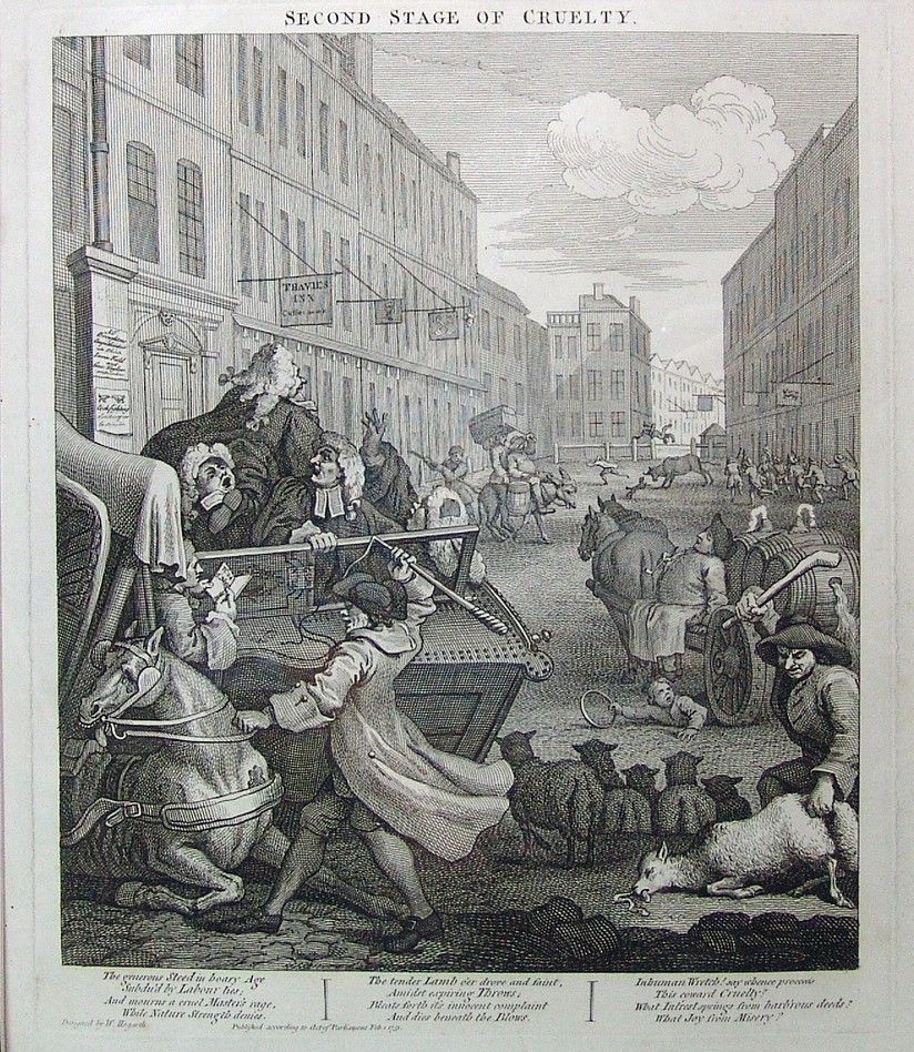 Four stages of cruelty - Second stage of cruelty, second of series of engravings